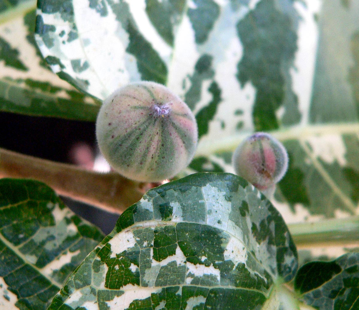 Photo of Ficus aspera at Balboa Park